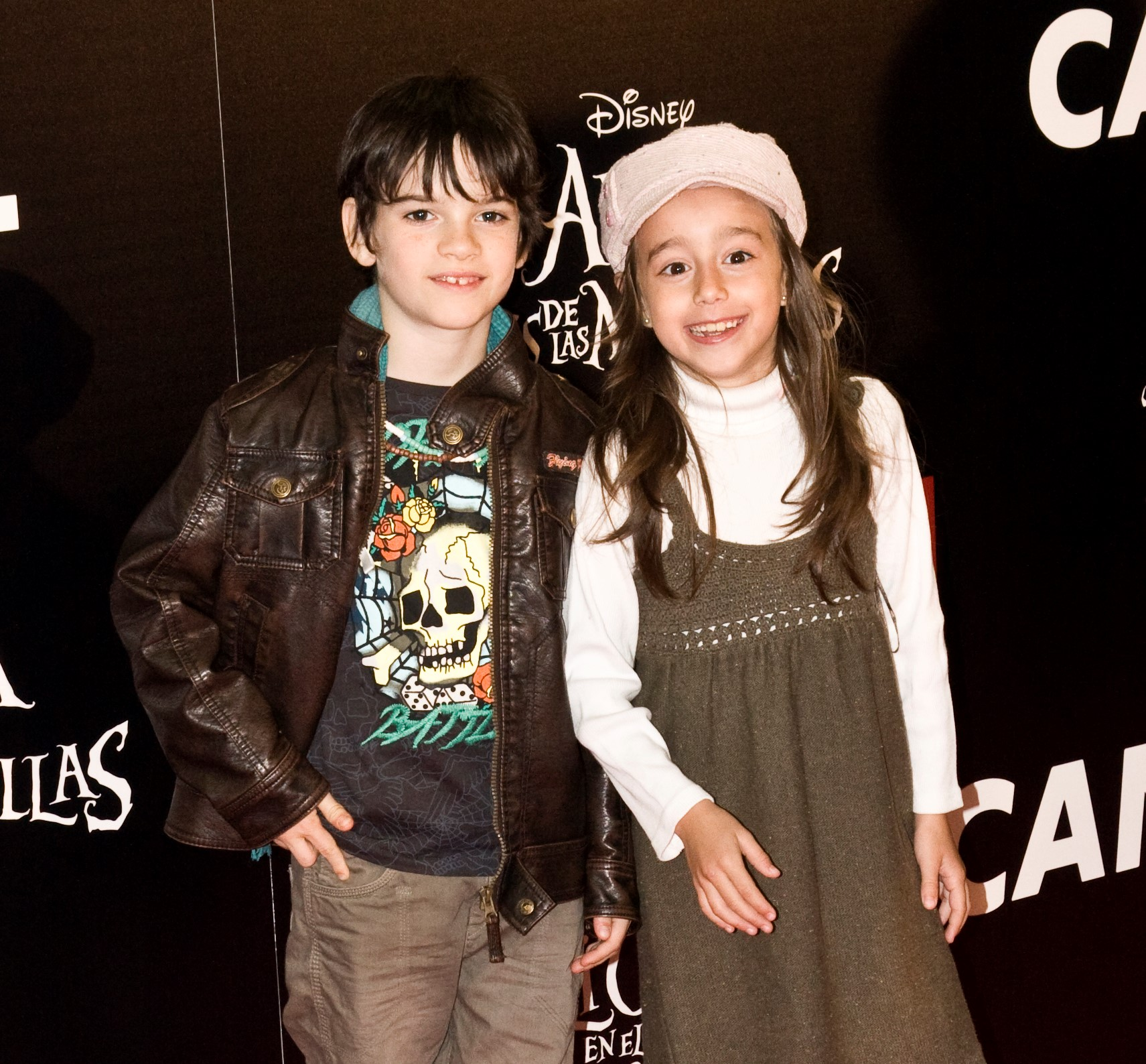 Daniel Avilés and Priscilla Delgado, Spanish actor and actress respectively at the photocall of Alice in Wonderland in 2010.